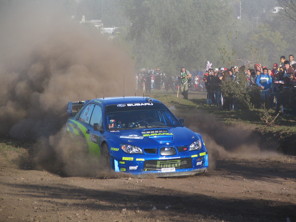 Petter Solberg driving his Subaru Impreza WRC during the 2006 Rally Argentina shakedown.